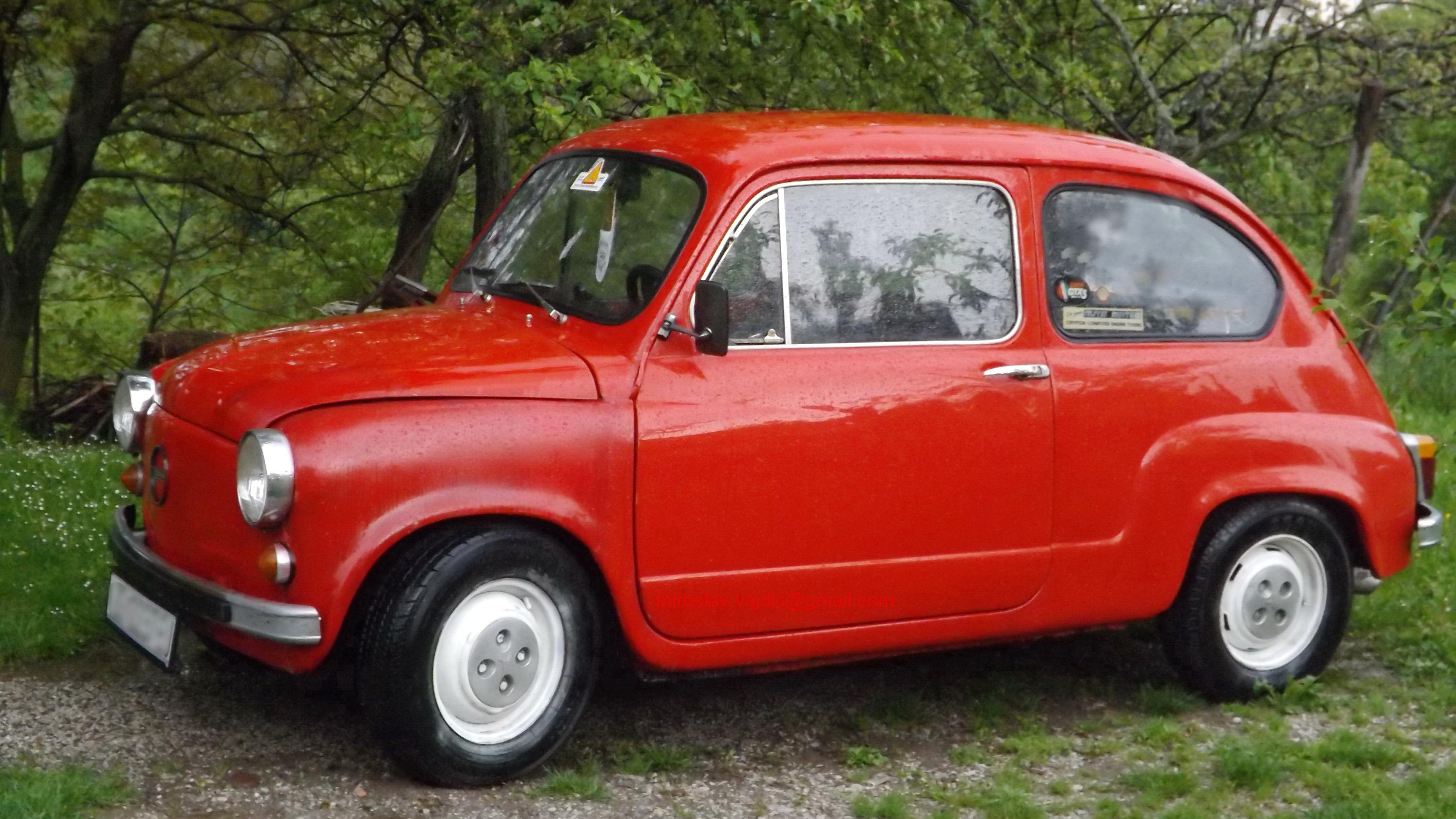 he Zastava 750 (Застава 750) was a car made by the Serbian car maker Zavod Crvena Zastava in Kragujevac. It was a version of the Fiat 600 made under licence from 1965, it was longer in length than the Fiat version. The Zastava 750 has a 767 cc (46.8 cu in) engine, which produces 25 PS (18.4 kW). The more powerful 750 SE has 30 PS (22.1 kW) at 5400 rpm and torque is 38 lb·ft (52 N·m) at 3600 rpm.[2] It is the smallest car ever made by Zastava. Later on during production, in 1980. the Zastava 850 was introduced, it featured the same body as the Zastava 750 but the engine had a larger capacity. The Zastava 850 is harder to find than the 750 model but both are still widely available in former Yugoslavia. Zastava 750 is widely known by its nickname "Fića" (Фићa) or "Fićo" (Фићo) in Serbian, Montenegrin, Croatian and Bosnian, by "Fičo" or "Fičko" in Slovene and by "Fikjo" (Фиќо) in Macedonian. The nickname "Fića" comes from the main character of a comic published by the newspaper Borba during the first years of the car's production.